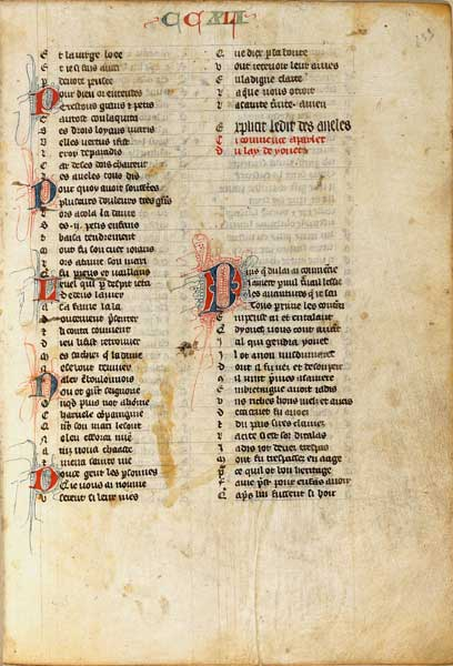 manuscript page of the lai Yonec The resolution of this file has been reduced from the original high quality file used by the Bibliotheque Nationale. The purpose of this illustration is to provide a frame of reference for the manuscript referred to in the article Yonec.